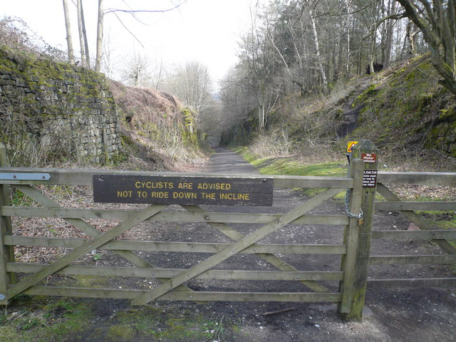 High Peak Trail View - Sheep Pastures Incline